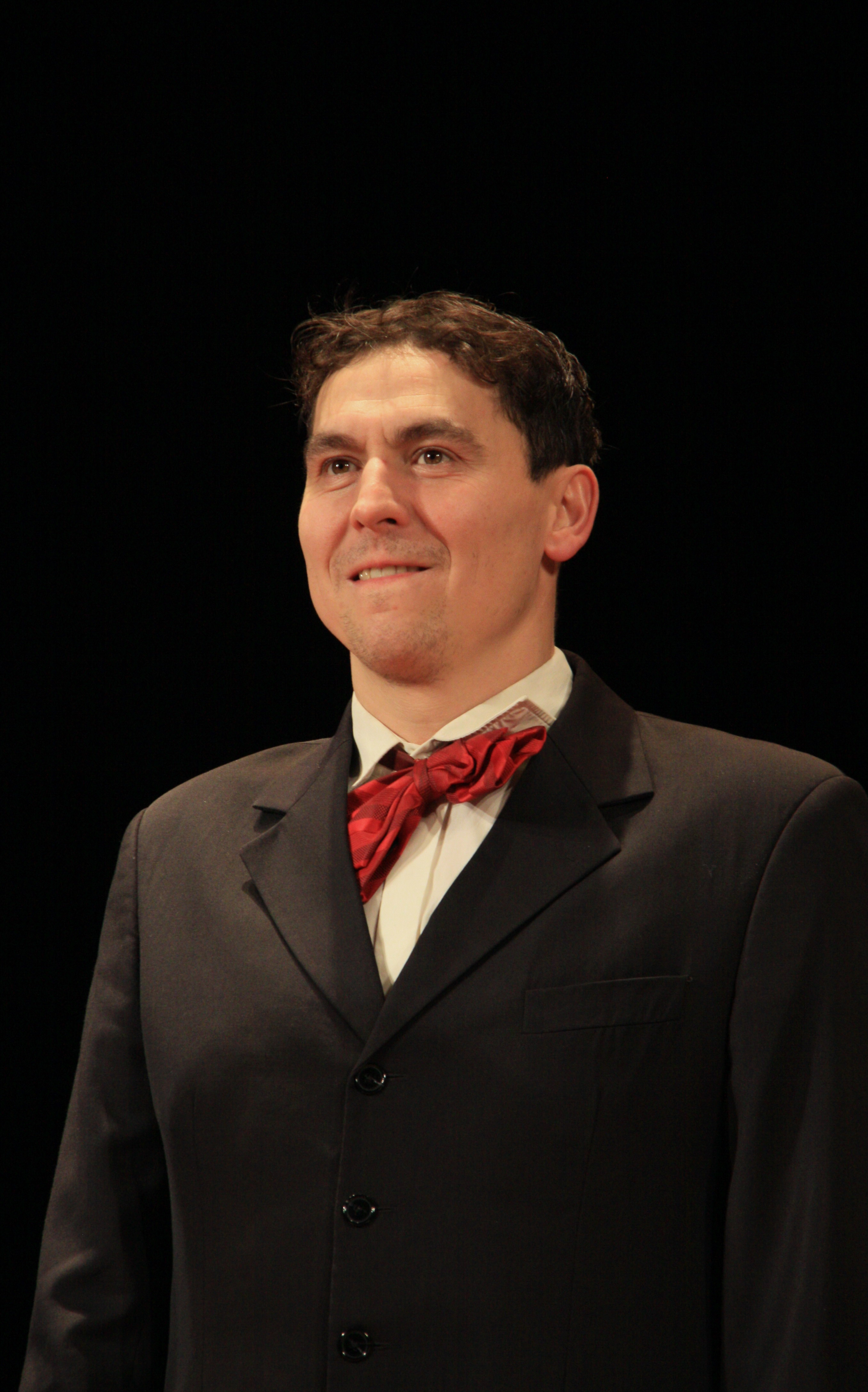 Andrzej Kozłowski - Polish actor. BSCK, Busko-Zdrój, 25 January 2012